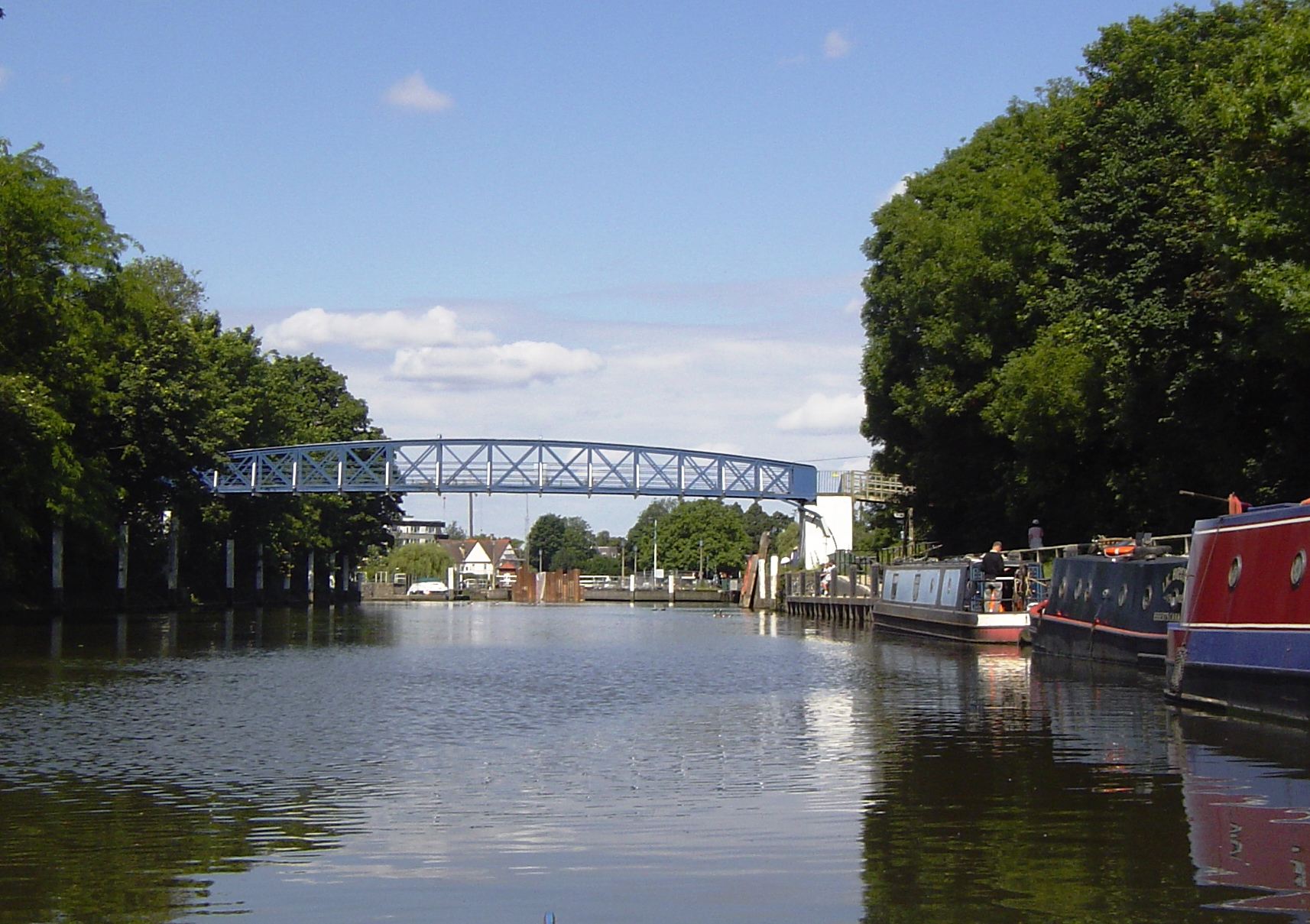 Teddington Lock Footbridge - Girder bridge on Surrey side